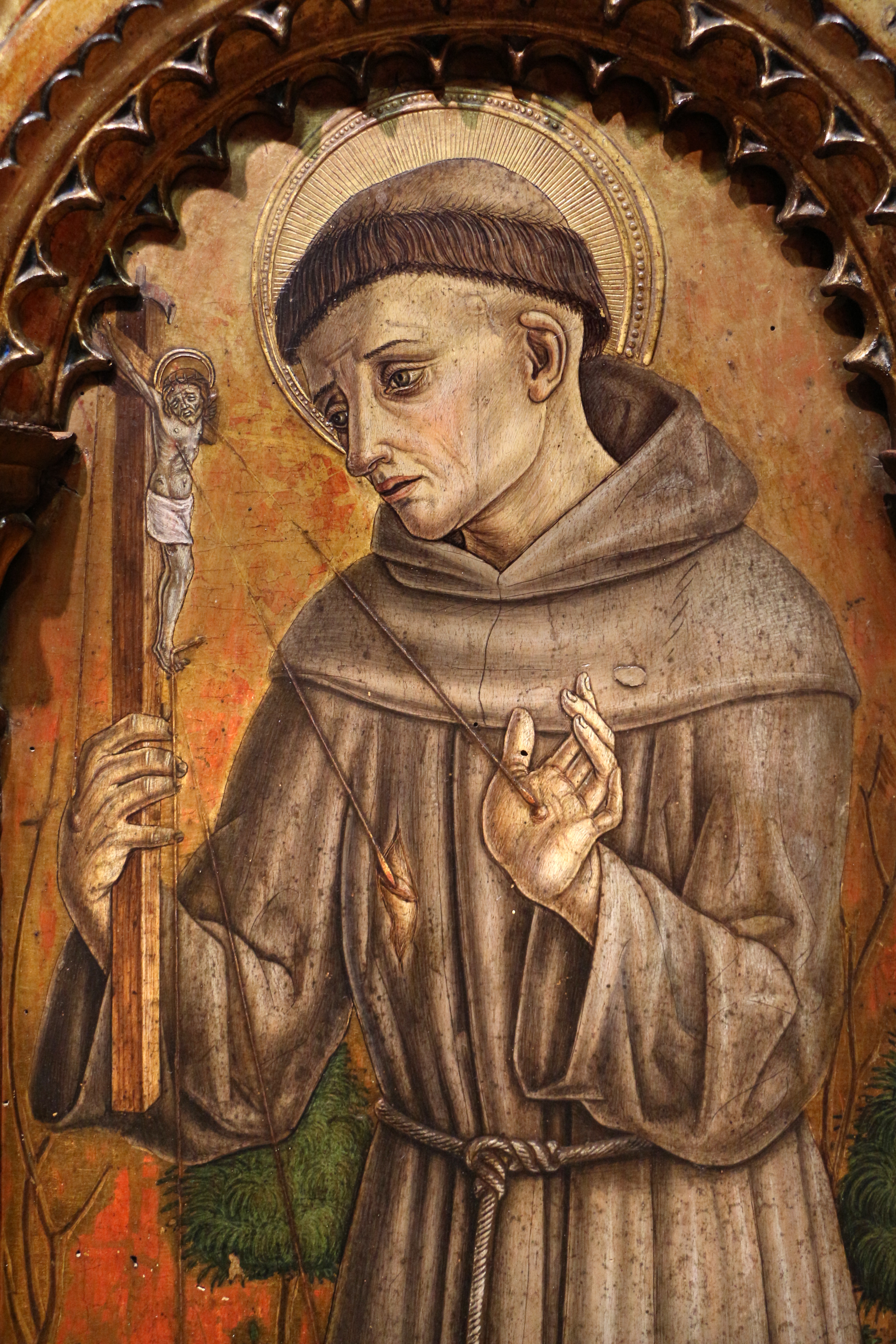 San Severino Polyptych by Vittore Crivelli